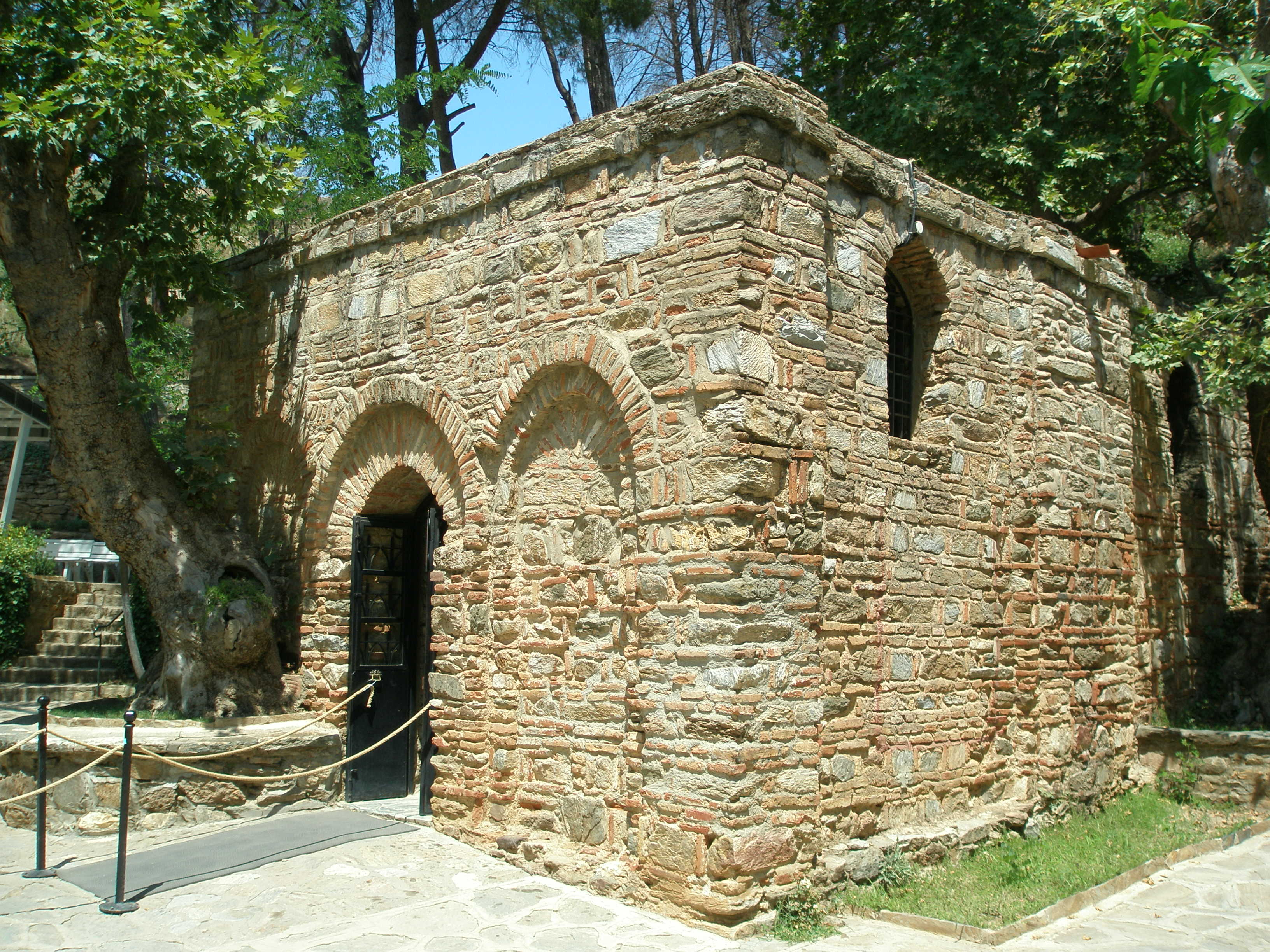 Virgin Marys House near Ephesus